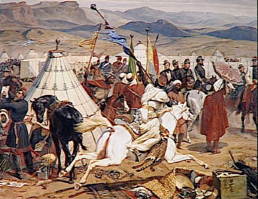 Depicts the Battle of Isly on 14 august 1844